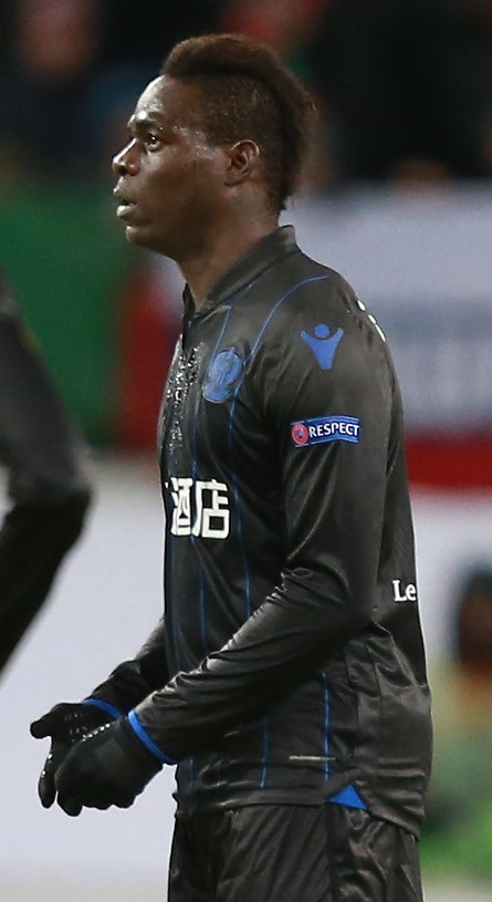 Mario Balotelli